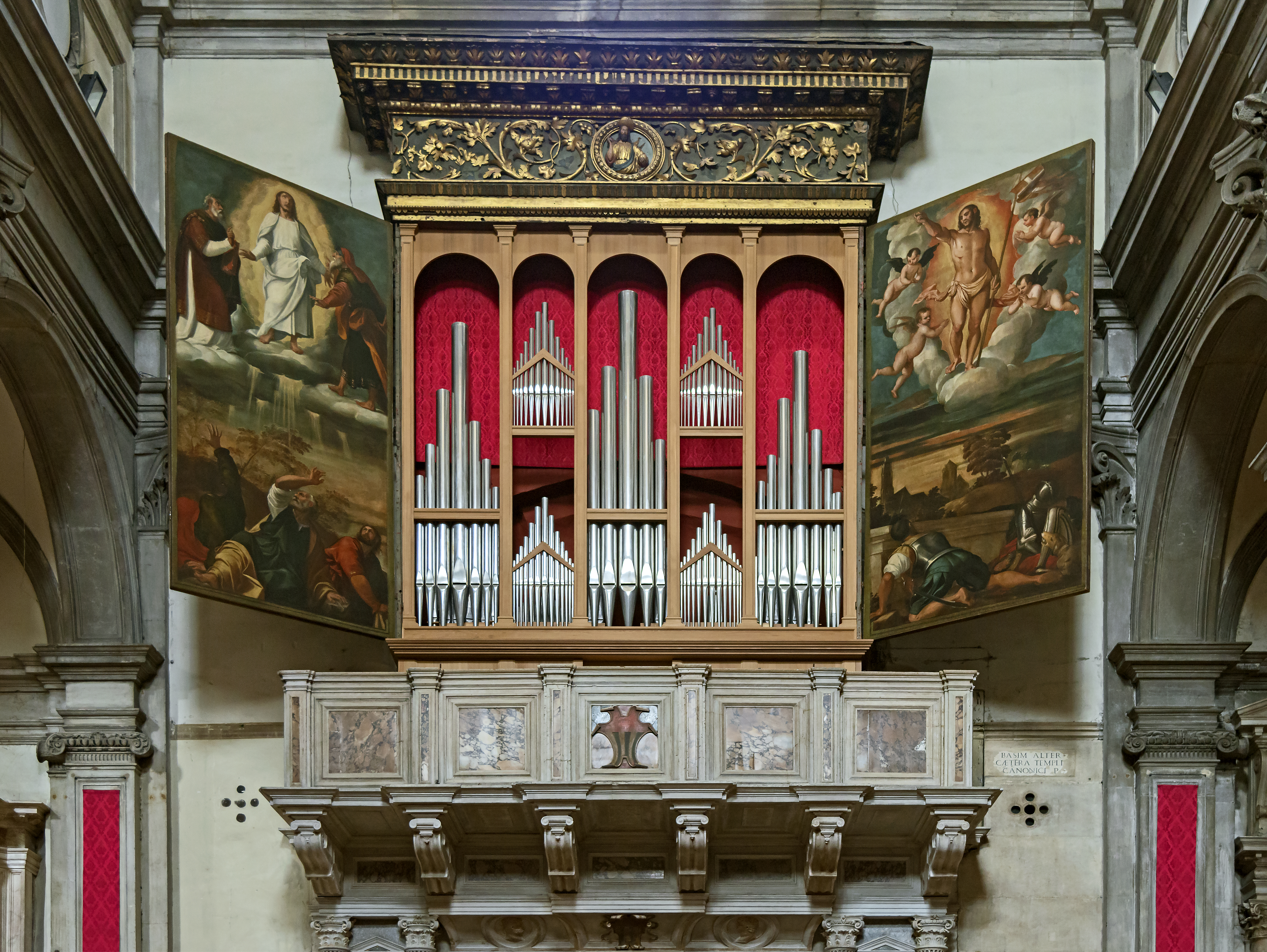 San Salvatore, Venice - Organ - Doors of the organ by Francesco Vecellio